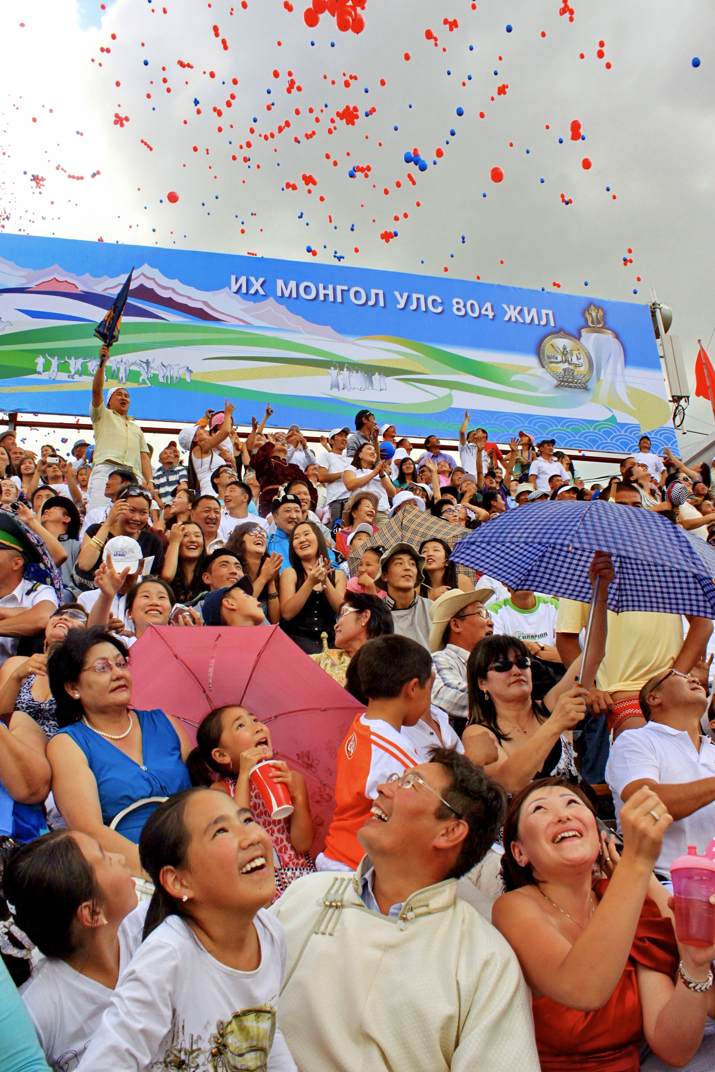 Naadam festival at the national stadium. Ulan Bator, Mongolia.